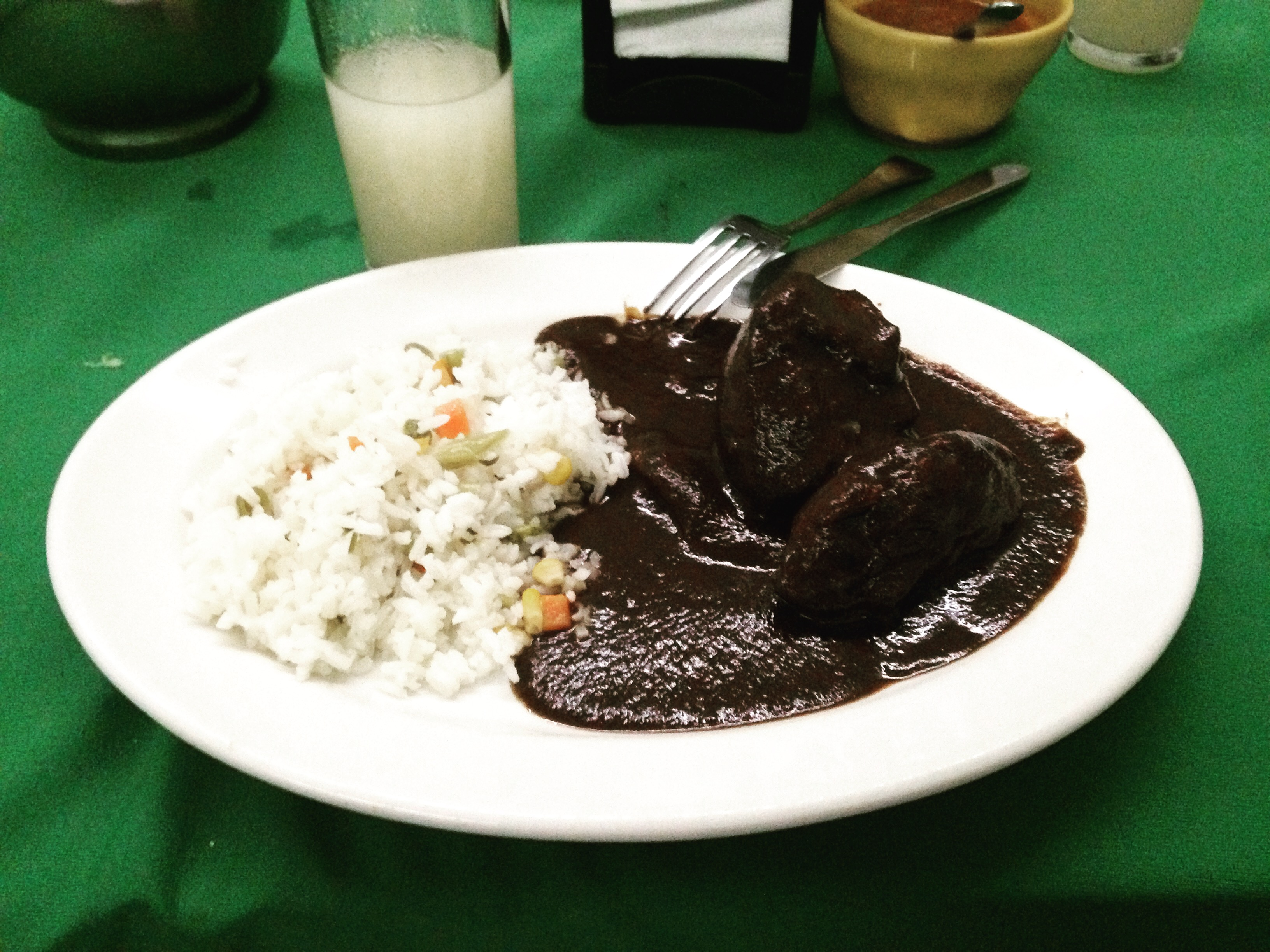 Mole negro (Black mole) from Oaxaca with chicken and a portion of white rice.